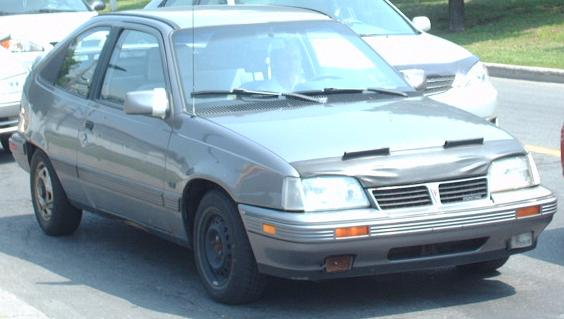 1989-1993 Pontiac LeMans photorgraphed in Montreal, Quebec, Canada.